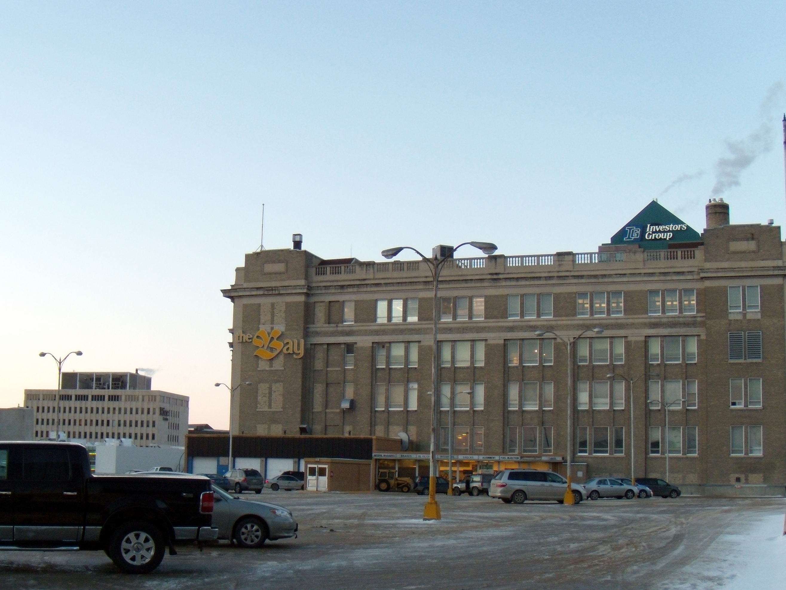 The Bay downtown in Winnipeg as seen from the top of the attached parkade.